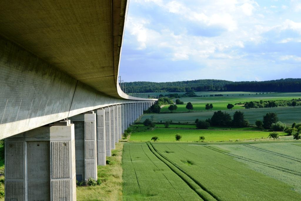 Ohlenrode Talbruecke_ICE high-speed line Hannover-Wuerzburg.